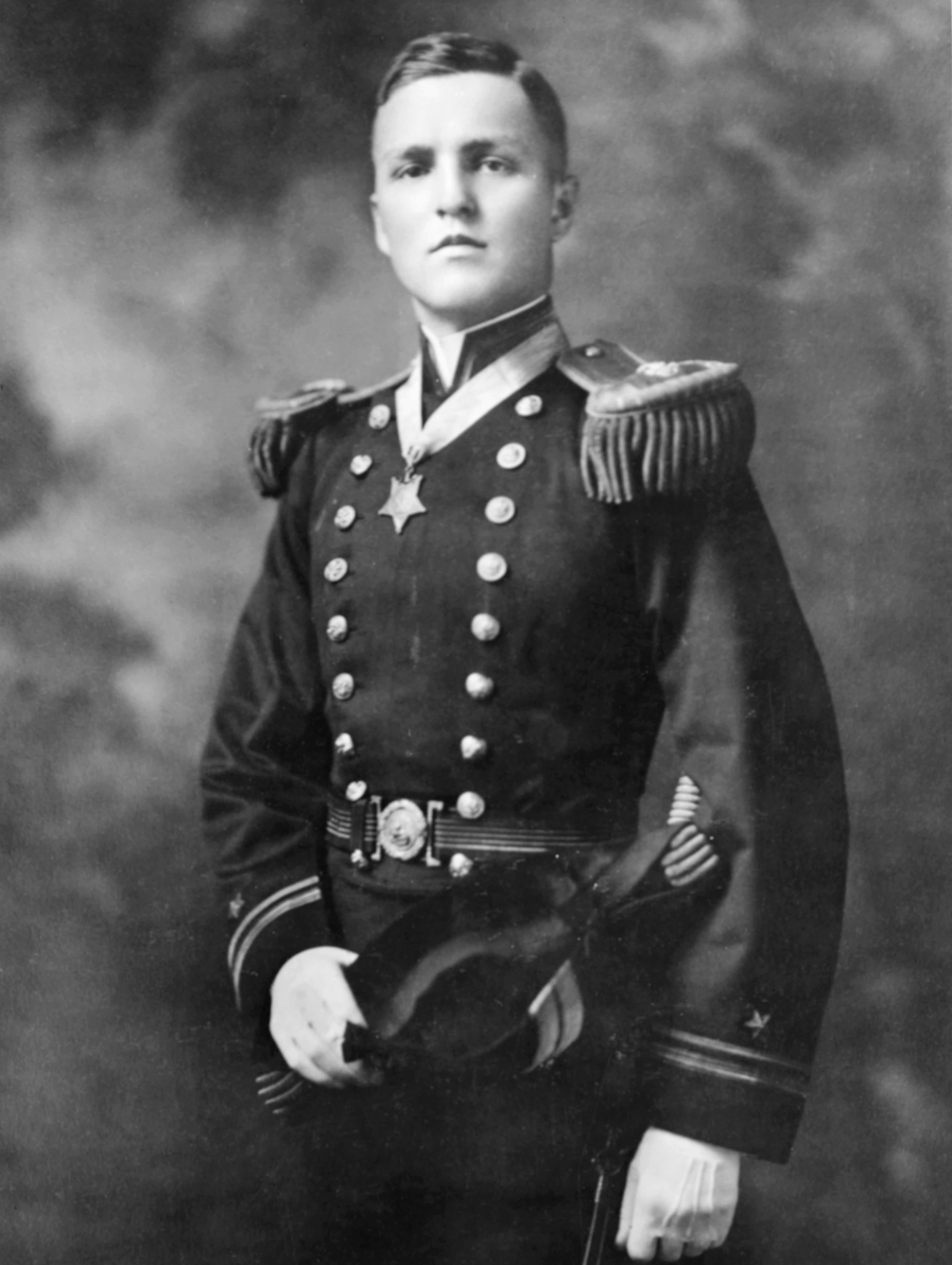 American war hero, Medal of Honor recipient